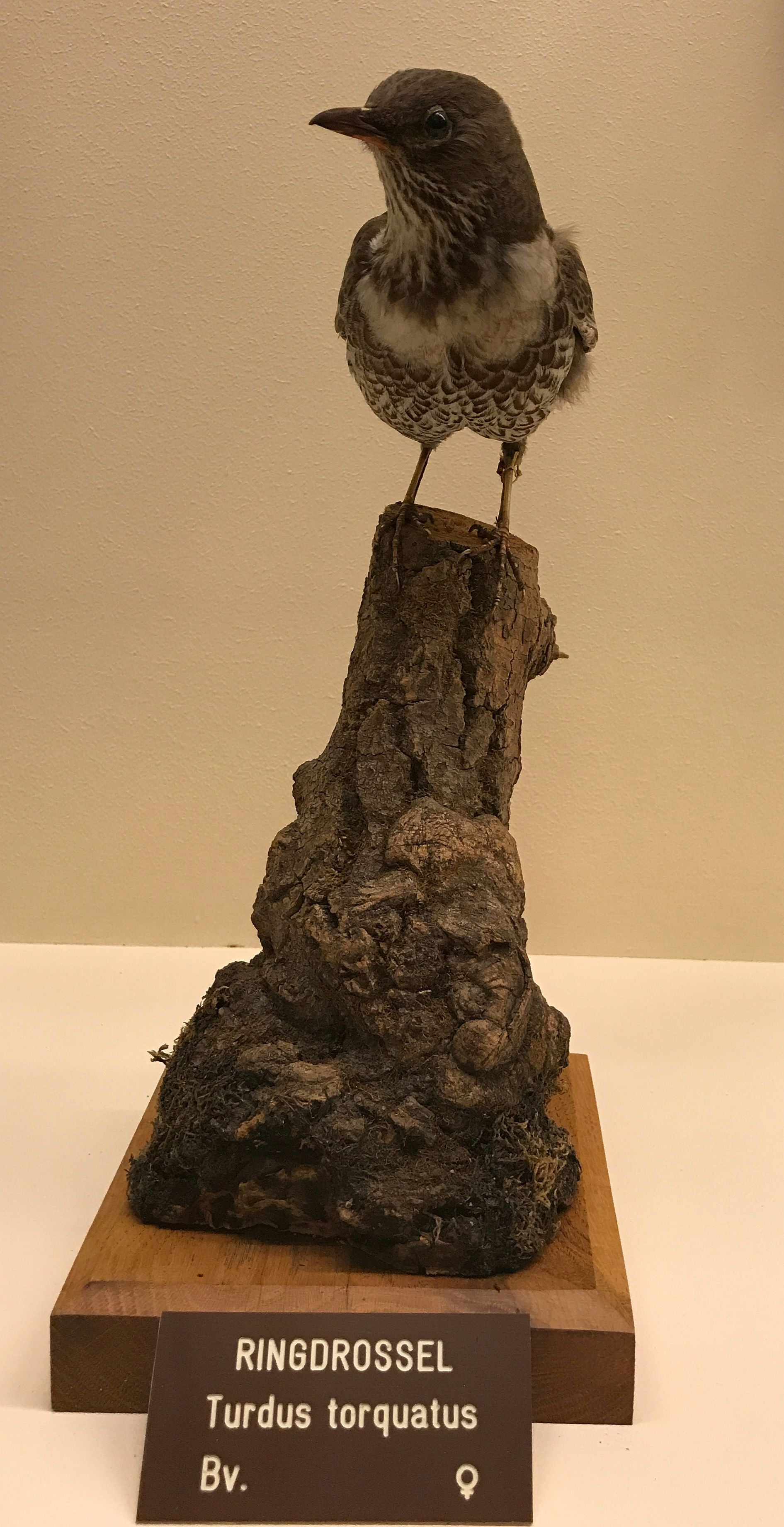 Ring ouzel Bird-mount preparation of the Museum of Natural History in Vienna